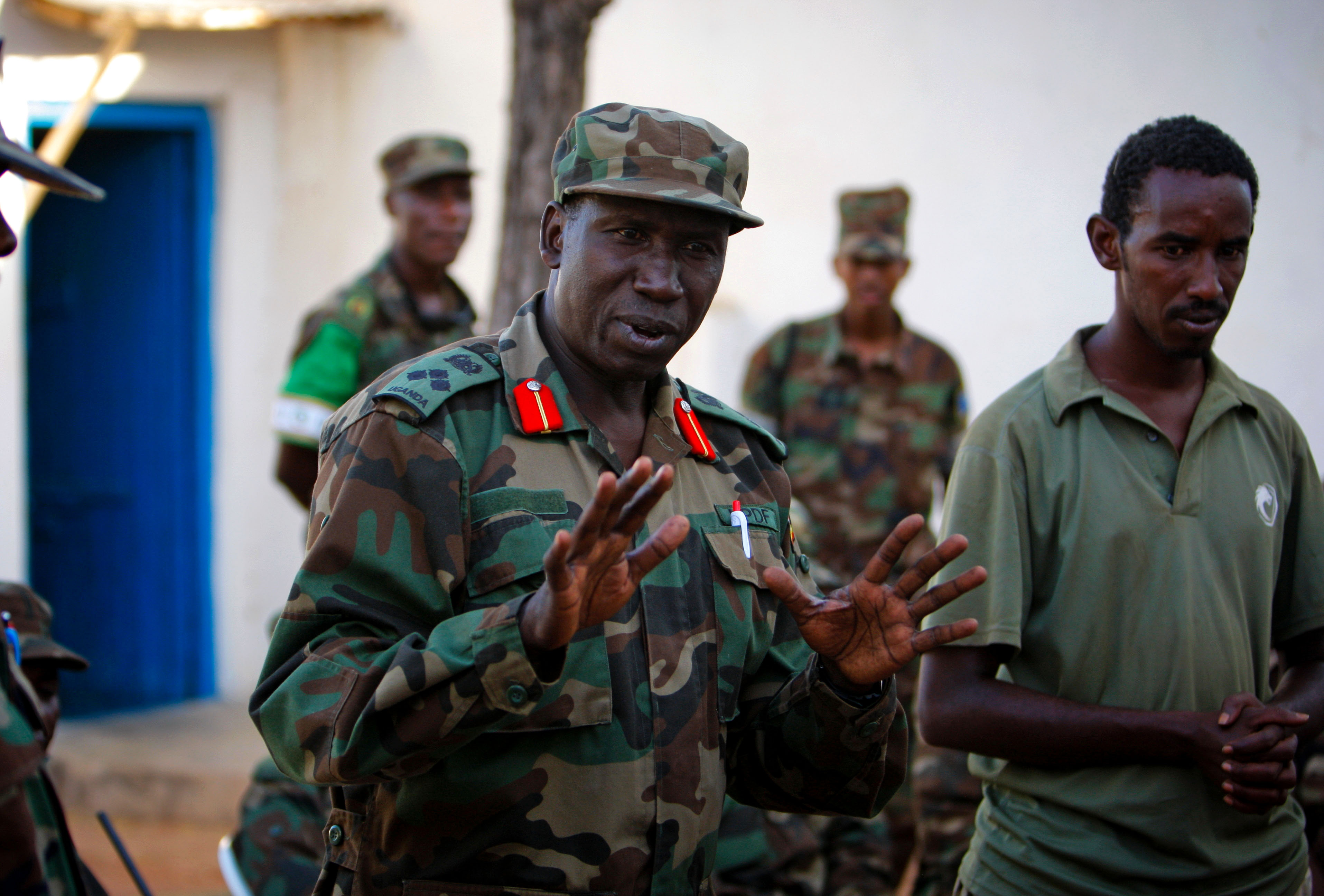 Brig. Gen. Michael Ondoga, Contingent Commander for Ugandan troops serving with the African Union Mission in Somalia (AMISOM) speaks with elders during a meeting in the central Somali town of Buur-Hakba following it's capture the day before from the Al-Qaeda-affiliated extremist group Al Shabaab by the Somali National Army (SNA), supported by AMISOM forces. The strategically important town linking the capital Mogadishu and the hinterlands of central Somalia was liberated without a shot being fired, marking a significant loss for the group. The town, located 64kms east of Baidoa, Somalia's second city, was a stronghold of the Shabaab where they extorted high levies of illegal taxation on the local civilian populations and used it as a base from where they planned and launched attacks against government forces and installations, AMISOM and the Somali population. Buur-Hakba is the latest in a string of notable territorial losses for the extremist group to SNA and AMISOM forces over the last 18 months, which has seen their area of influence and control over towns and areas across Somalia steadily and rapidly decrease. AU-UN IST / STUART PRICE.